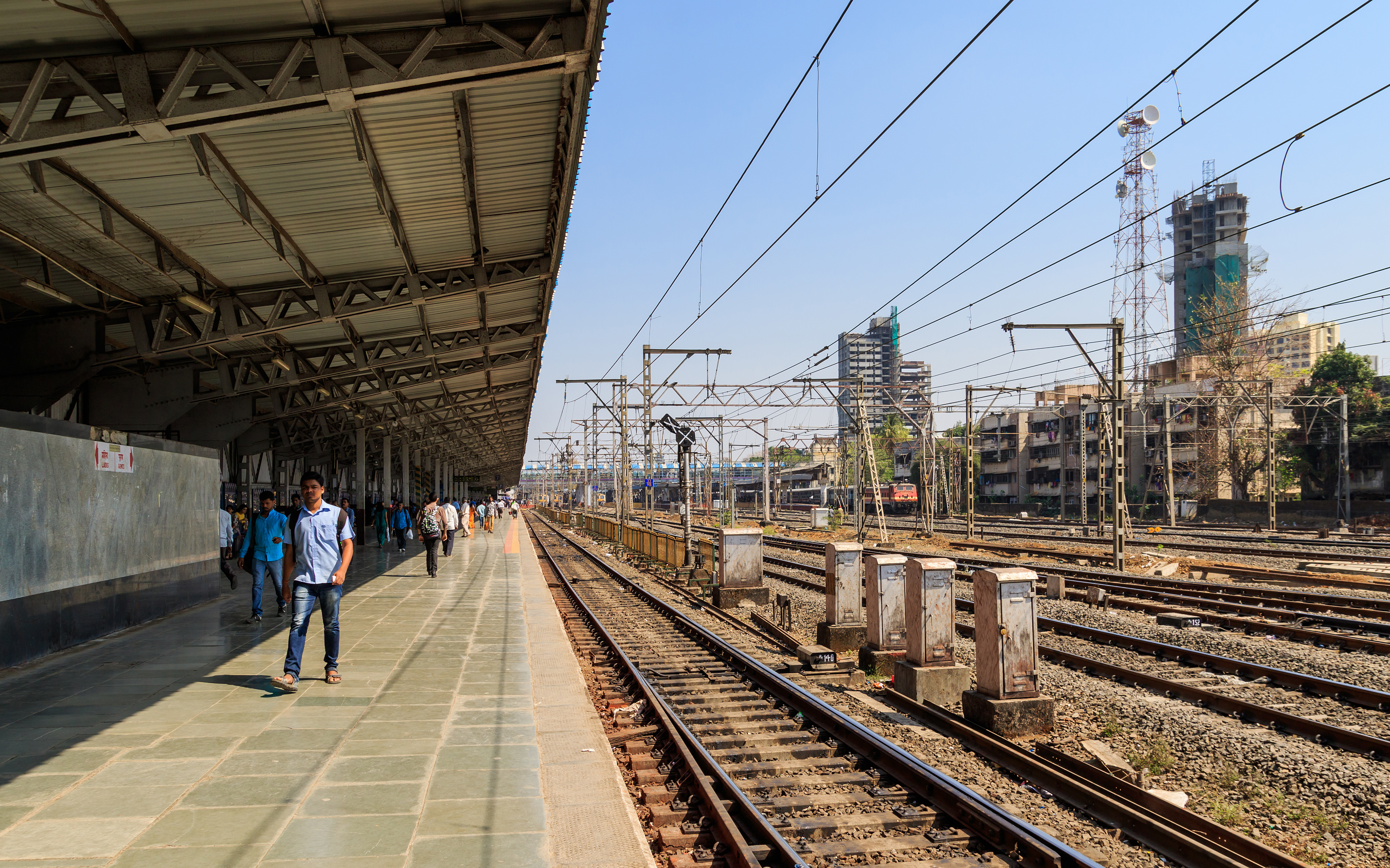 Borivali railway station (southernmost platform) in Mumbai, India